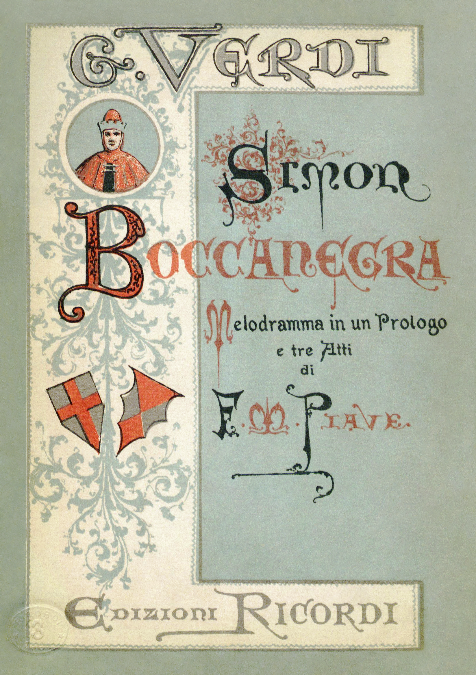 Cover to the first edition libretto for the 1881 revision of Giuseppe Verdi's Simon Boccanegra. Restored: Edges cleaned up, dust spots removed, rotate and tweaked slightly for rectangularness (didn't seem to be lying flat) and generally cleaned up.